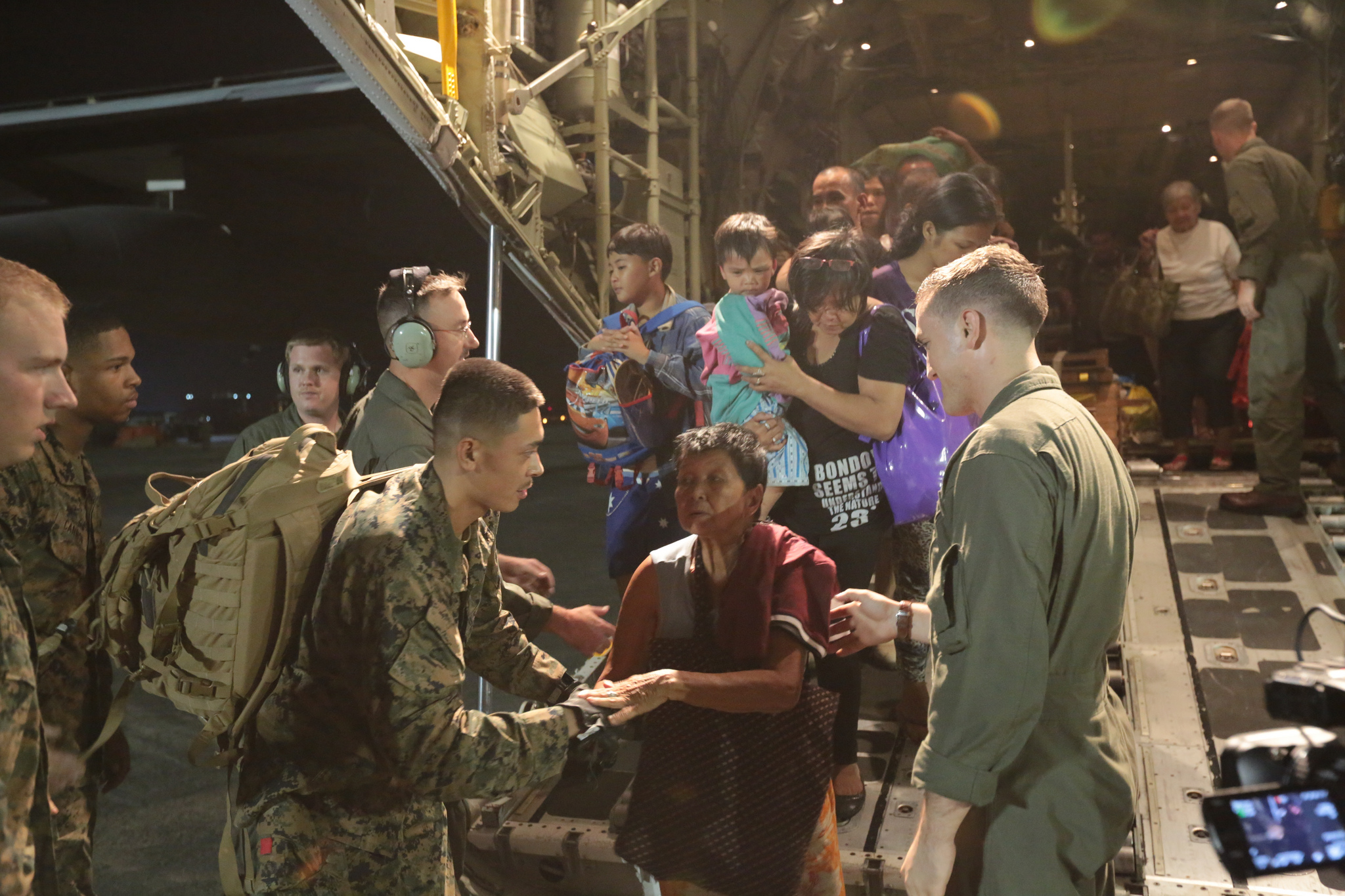 U.S. Marines help displaced Philippine nationals from the back of a KC-130J Super Hercules at Vilamor Air Base, Manila, Republic of the Philippines Nov. 11. Super Typhoon Haiyan has impacted more than 4.2 million people across 36 provinces in the Philippines, according to the Philippine government's national disaster risk reduction and management council.